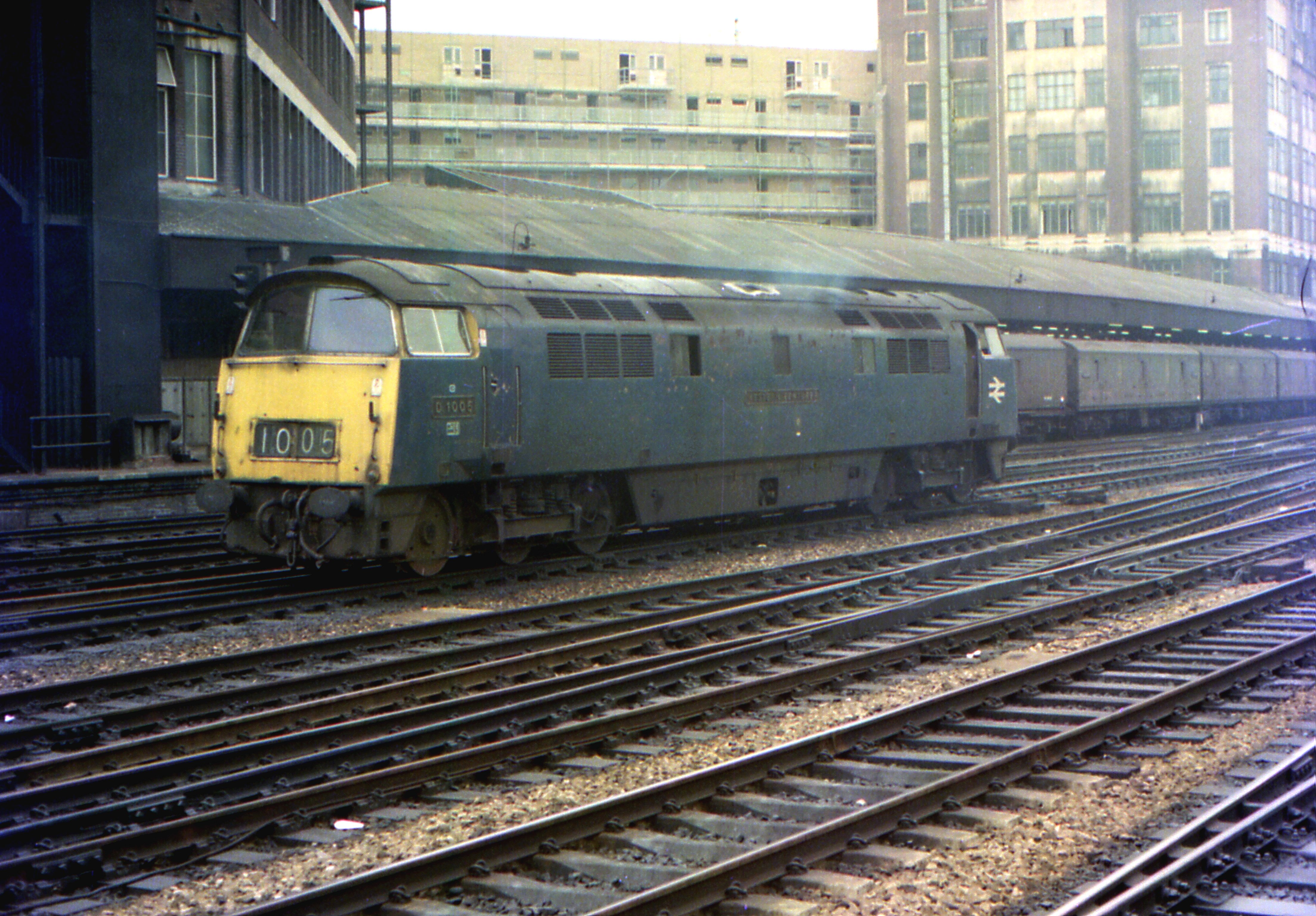 Diesel hydraulic locomotive 'Western' class 52 No. D1005 "Western Venturer" having brought a train up from Cornwall, departs Paddington for servicing and turning at Old Oak Common on 18 May 1976.